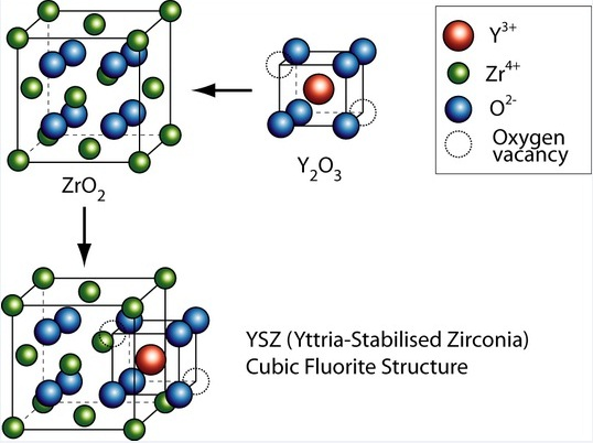 Structure of YSZ